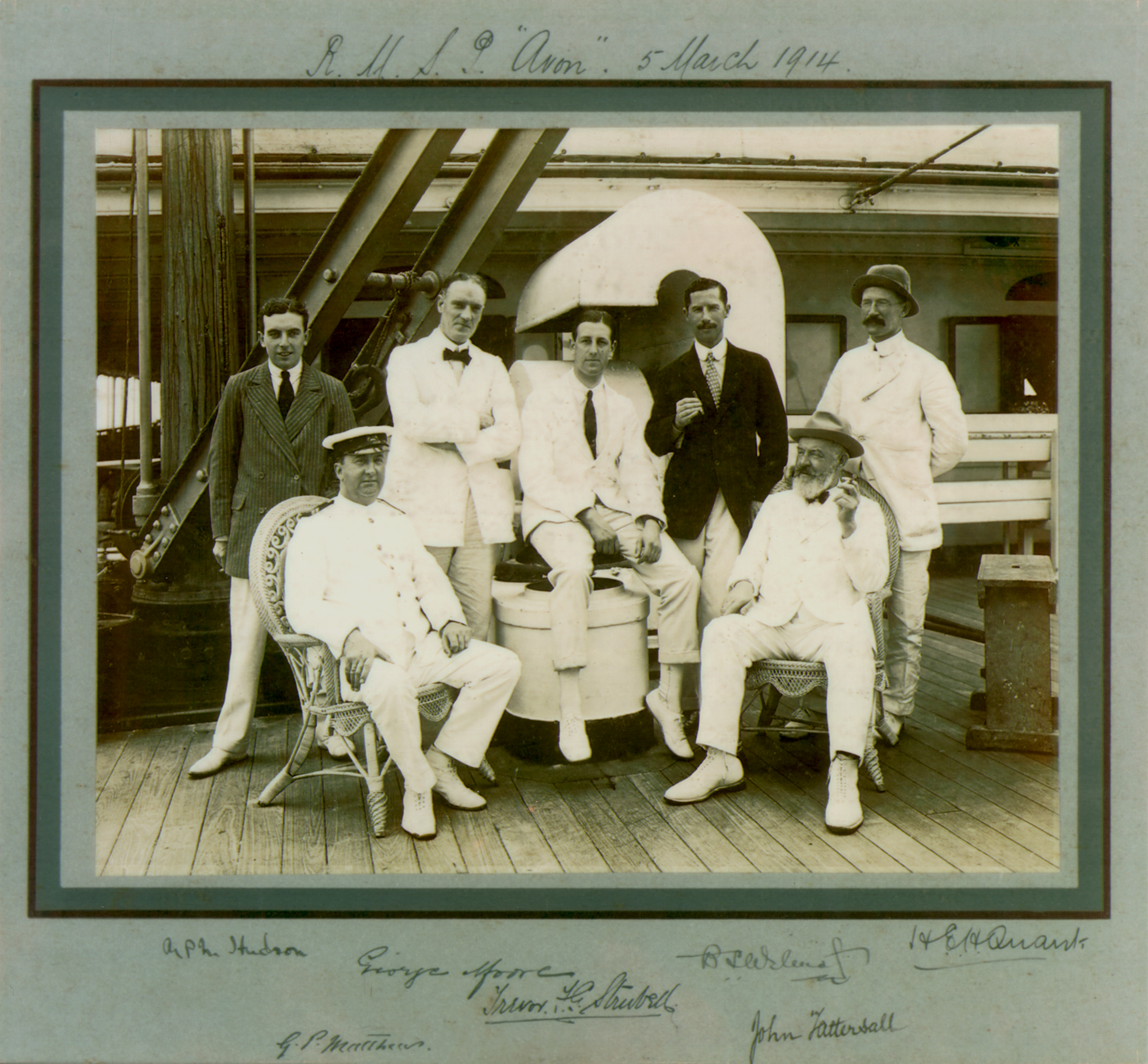 John Tattersall aan boord van de R.M.S. Avon, 5 maart 1914